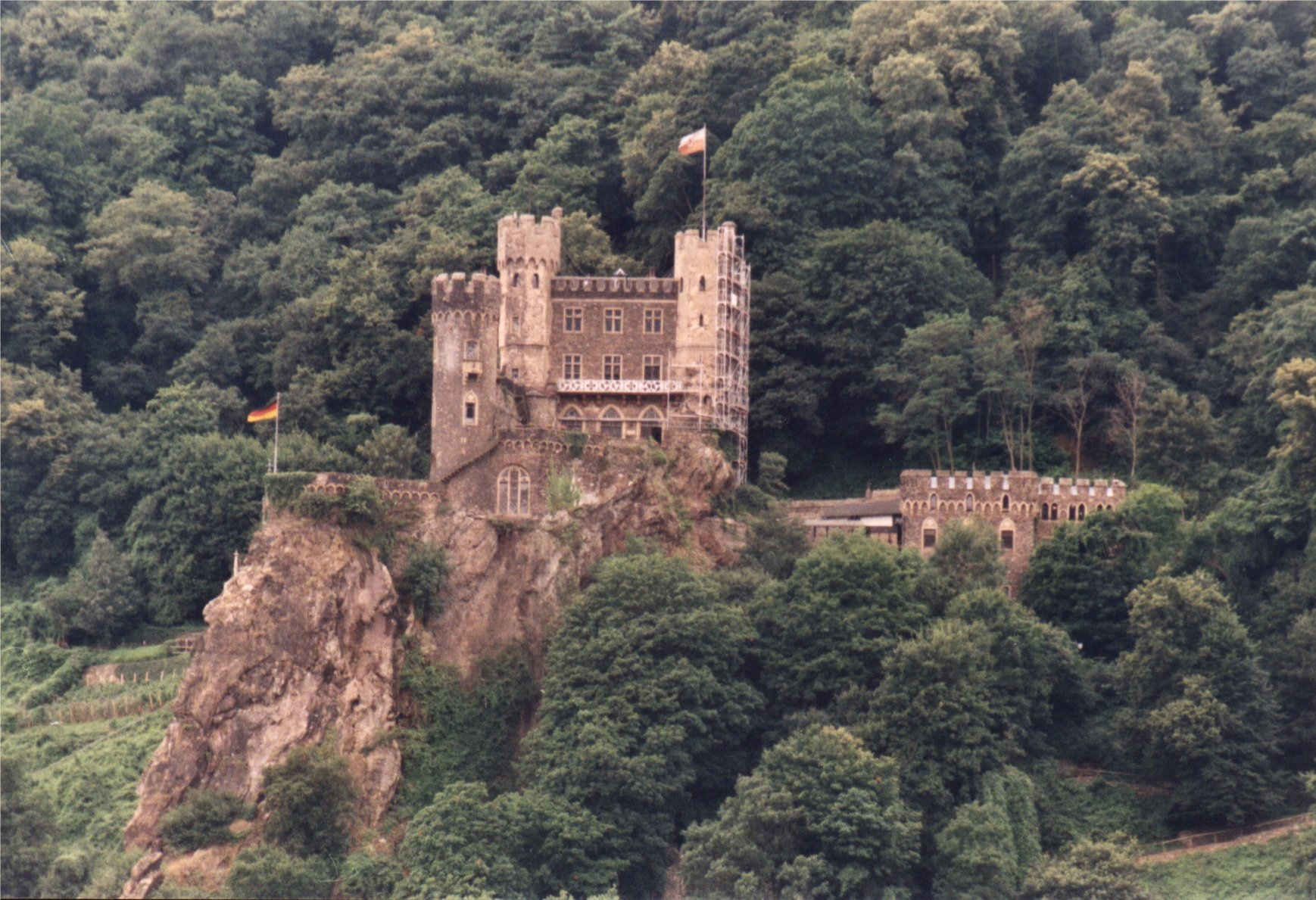 Rheinstein Castle